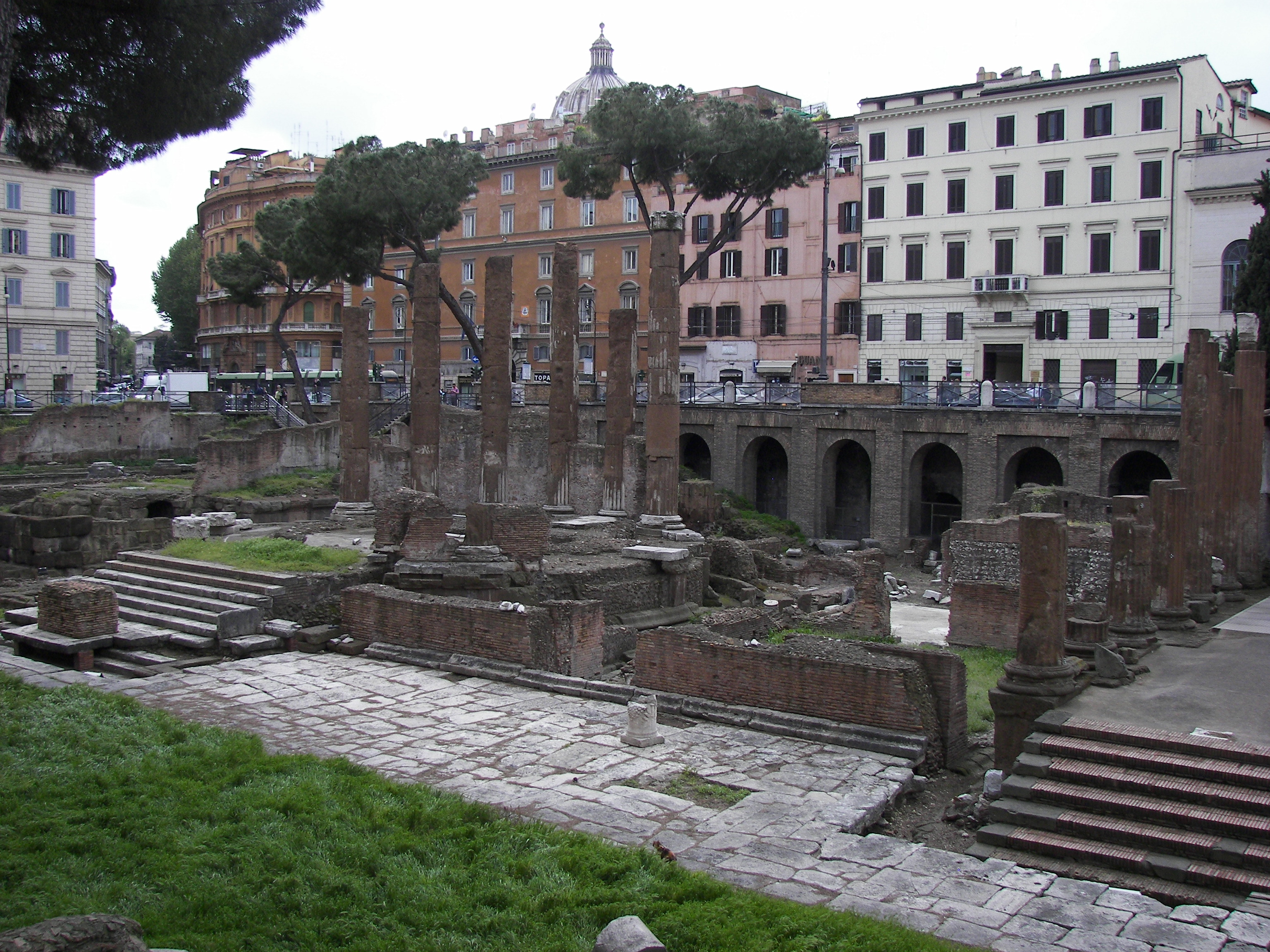 Largo di Torre Argentina in Rome. Temple B is in the center, the southern edge of Temple A is on the far-right, and Temple C is to the left.